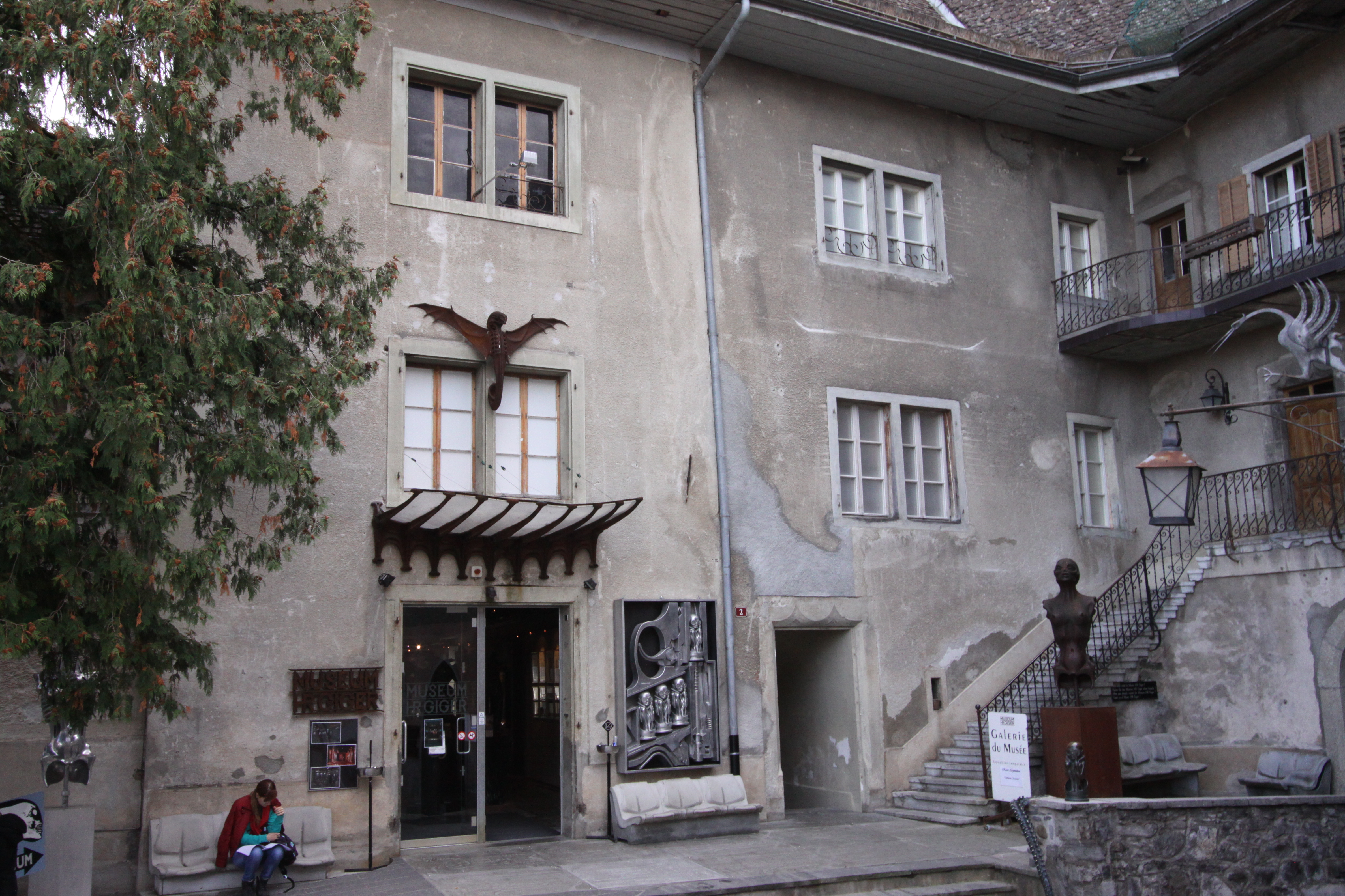 St. Germain Castle, Rue du Château 2, Gruyères